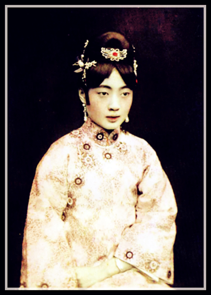 Wanrong during the selection process to the arranged-marriage with Emperor Xuantong.